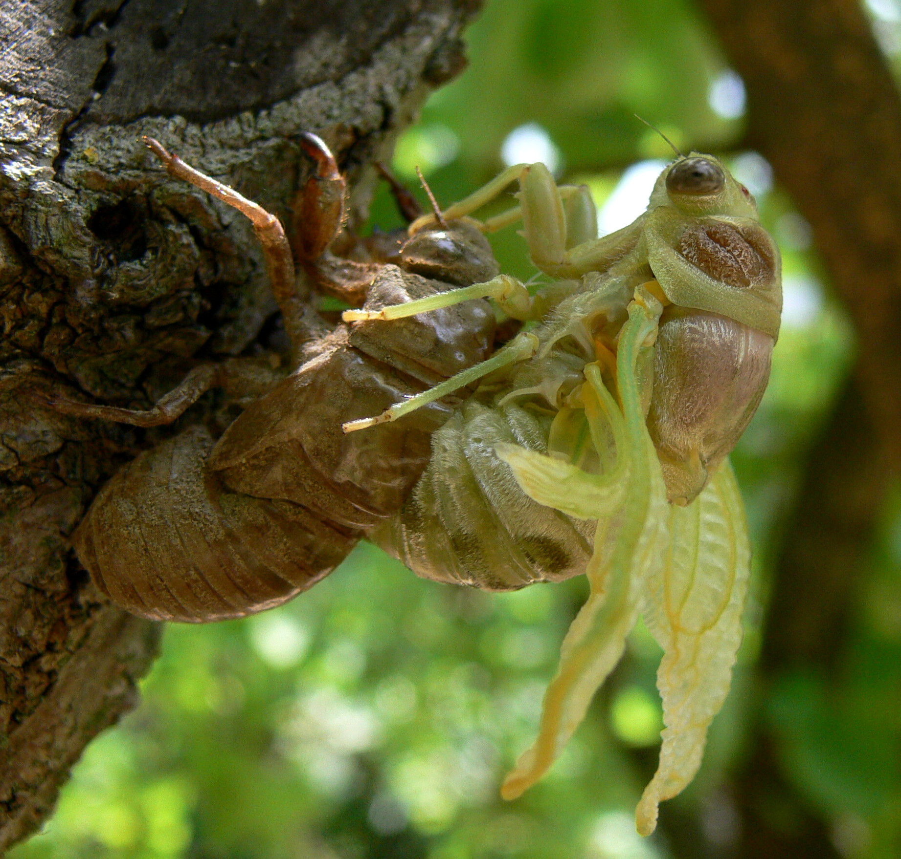 Cicada (Lyristes plebejus (Scopoli 1763), leaving its moult, Var (France)